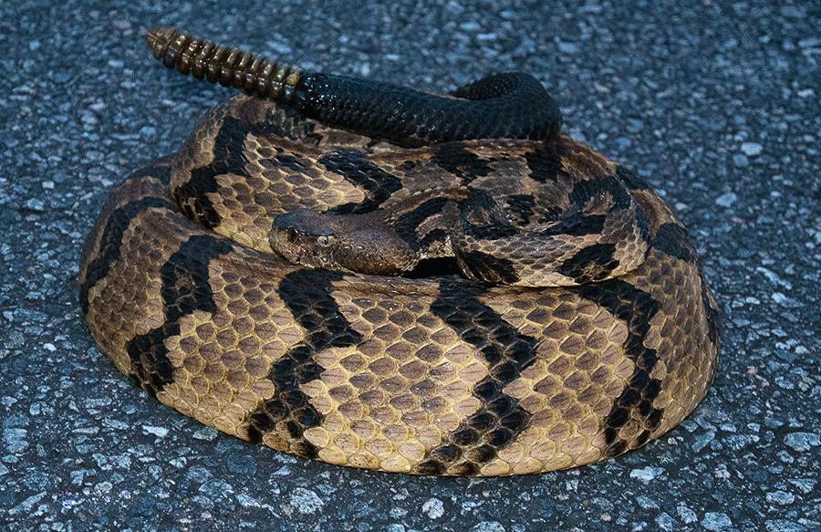 Adult Crotalus horridus, Florida